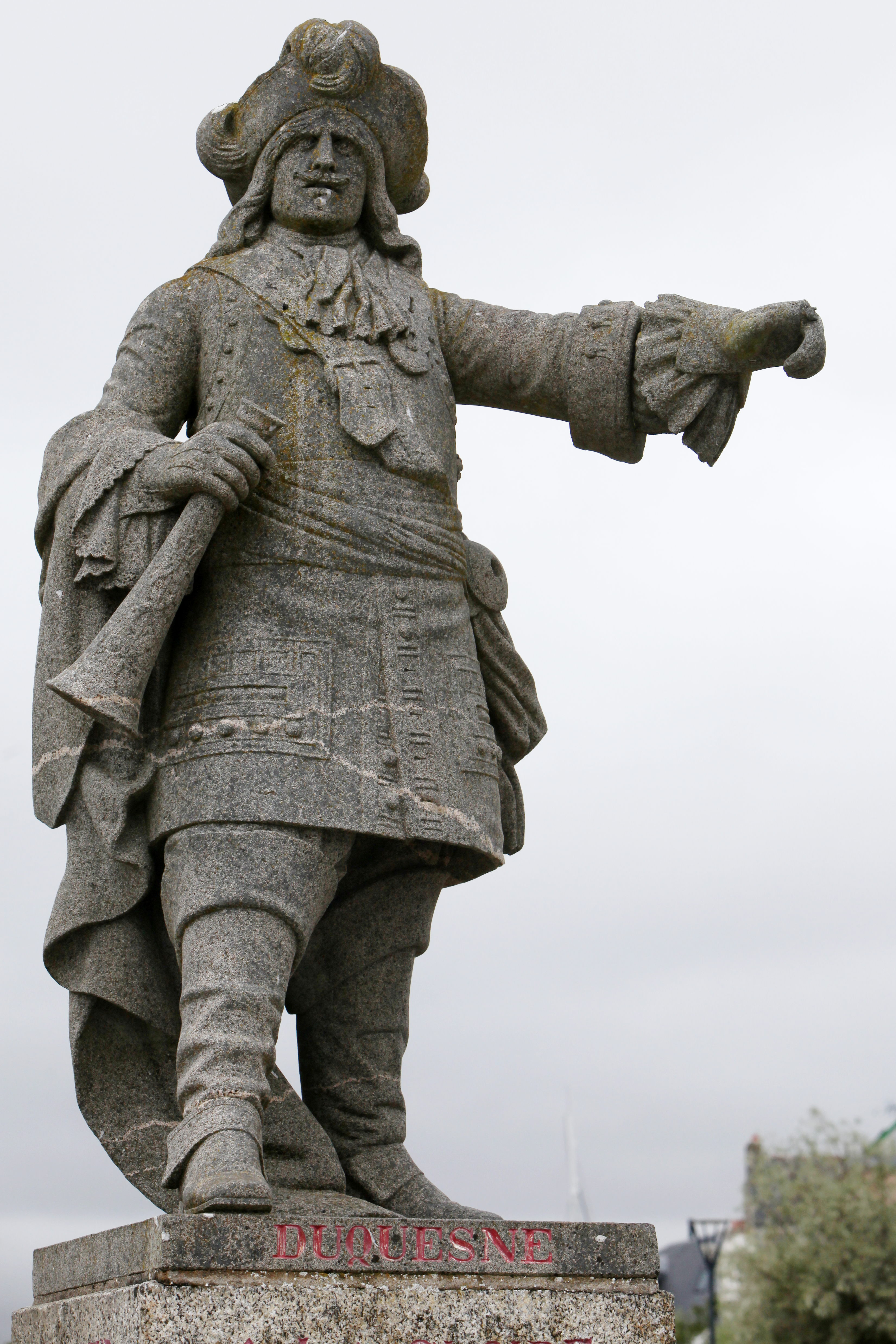 Statue of Abraham Duquesne by Yves Hernot junior in Concarneau